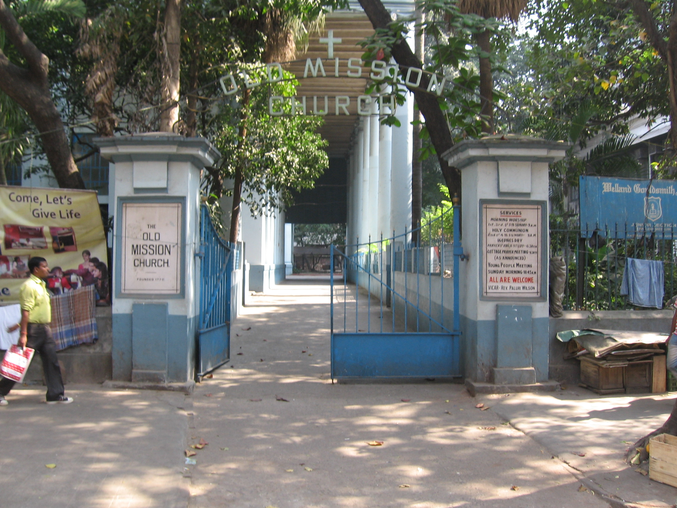 The entrance gate of the old Mission Church of Kolkata (in Mission Row)